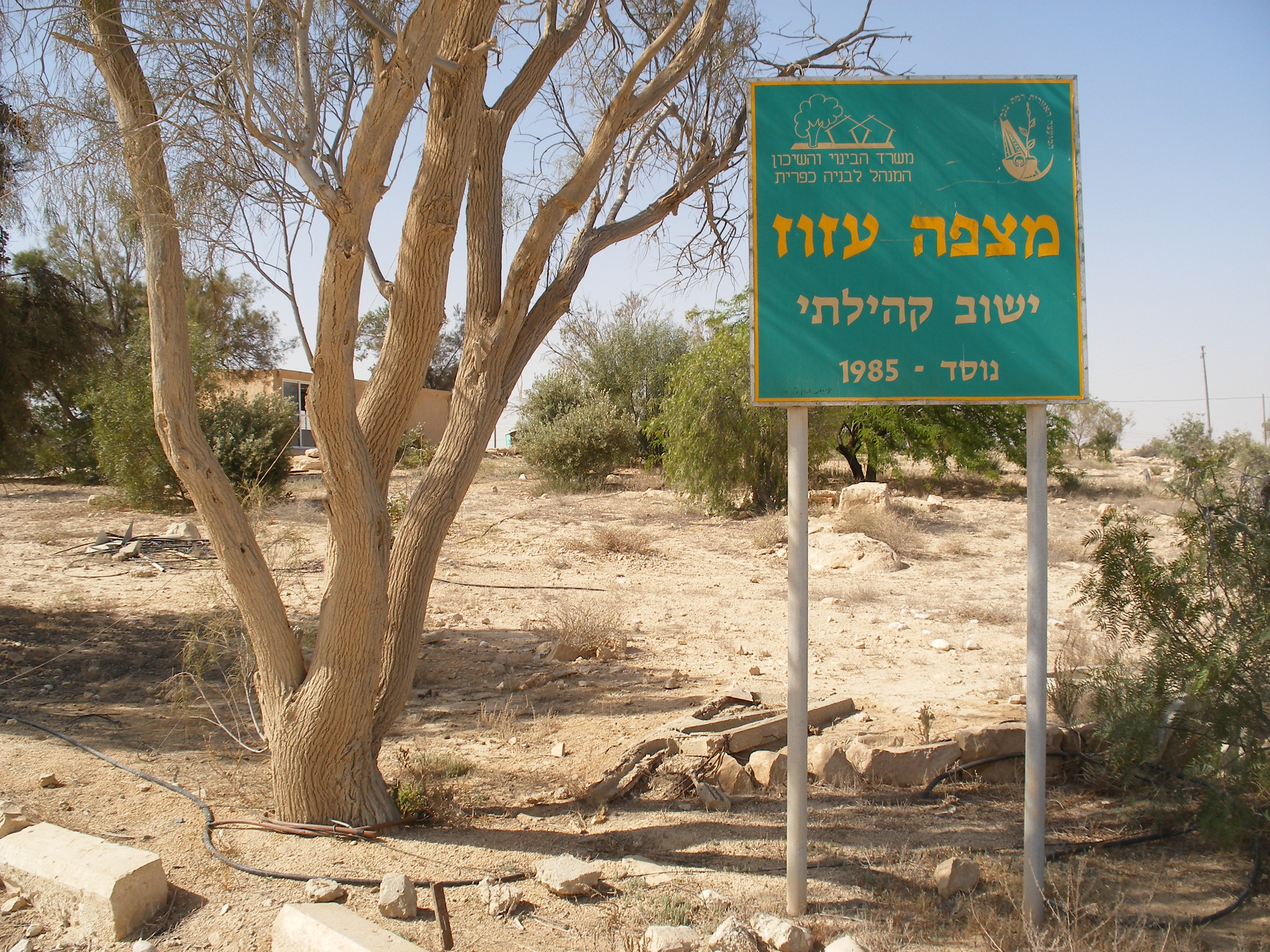 Ezuz